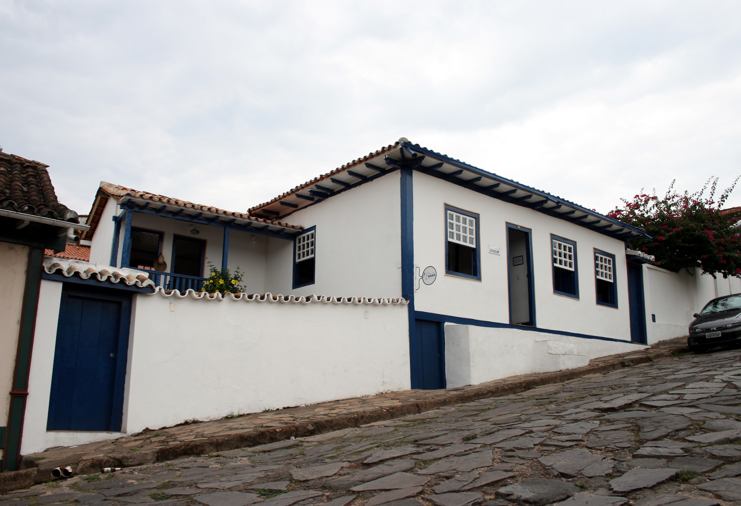 The childhood house of Juscelino Kubitschek in Diamantina-MG, Brazil.